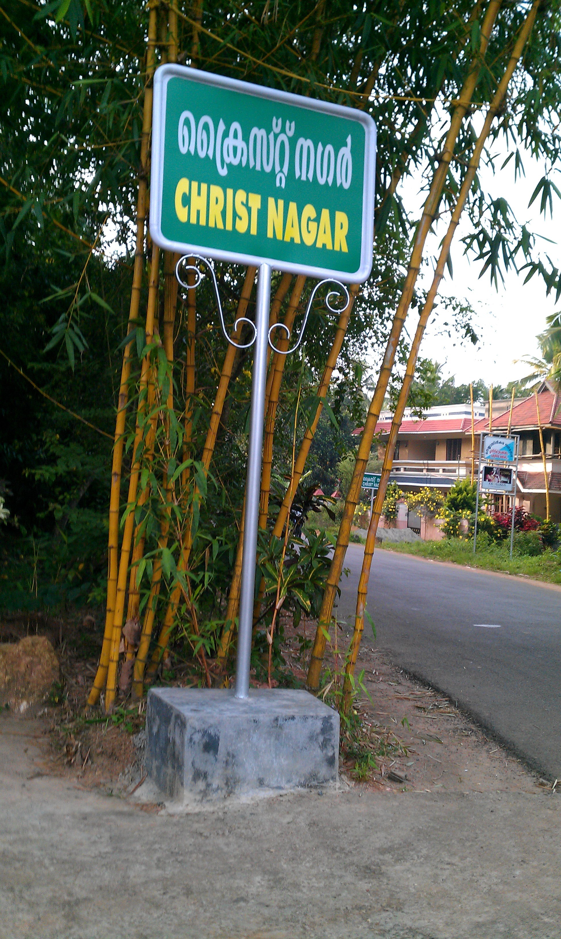 Christ Nagar Residential Area in Neyyattinkara (NTA) town, Trivandrum district, Kerala State, South India contains major landmarks such as Town Church (BFM)-NTA, CSI Town Church-NTA, Arakkunnu Checkpost and Prayer Gardens (Ministry of Jesus)-NTA in Vazhuthoor Ward; Bathel Church (Arakkunnu), and extends to Irumbil Ward. Christ Nagar is the largest commuter town or bedroom suburb of Neyyattinkara town. Other information This photo that I took on 2013-08-19 in my HTC Inspire mobile is also used by Christ Nagar Residents' Association (CNRA) in Christ Nagar, Neyyattinkara town in their Facebook and blog accounts.